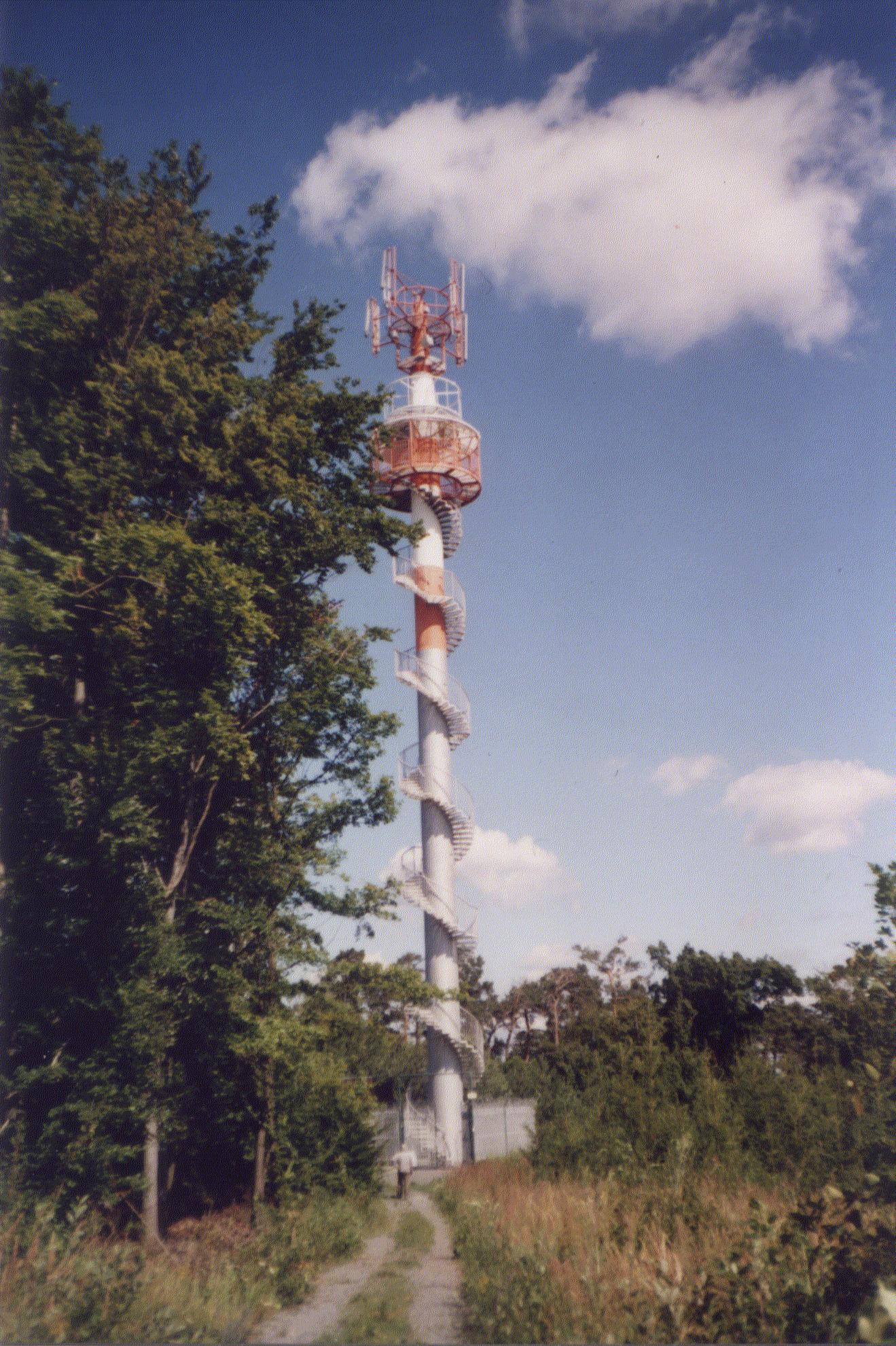 View-tower on Čebínka hill - Brno venkov district